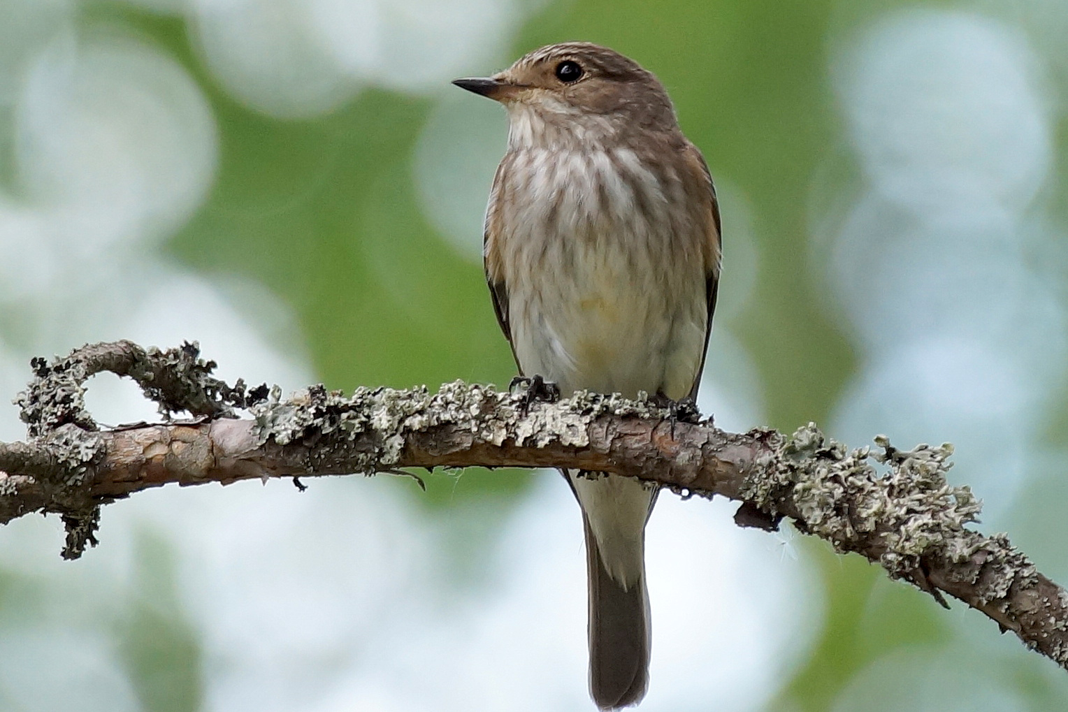 Spotted Flycatcher Muscicapa striata